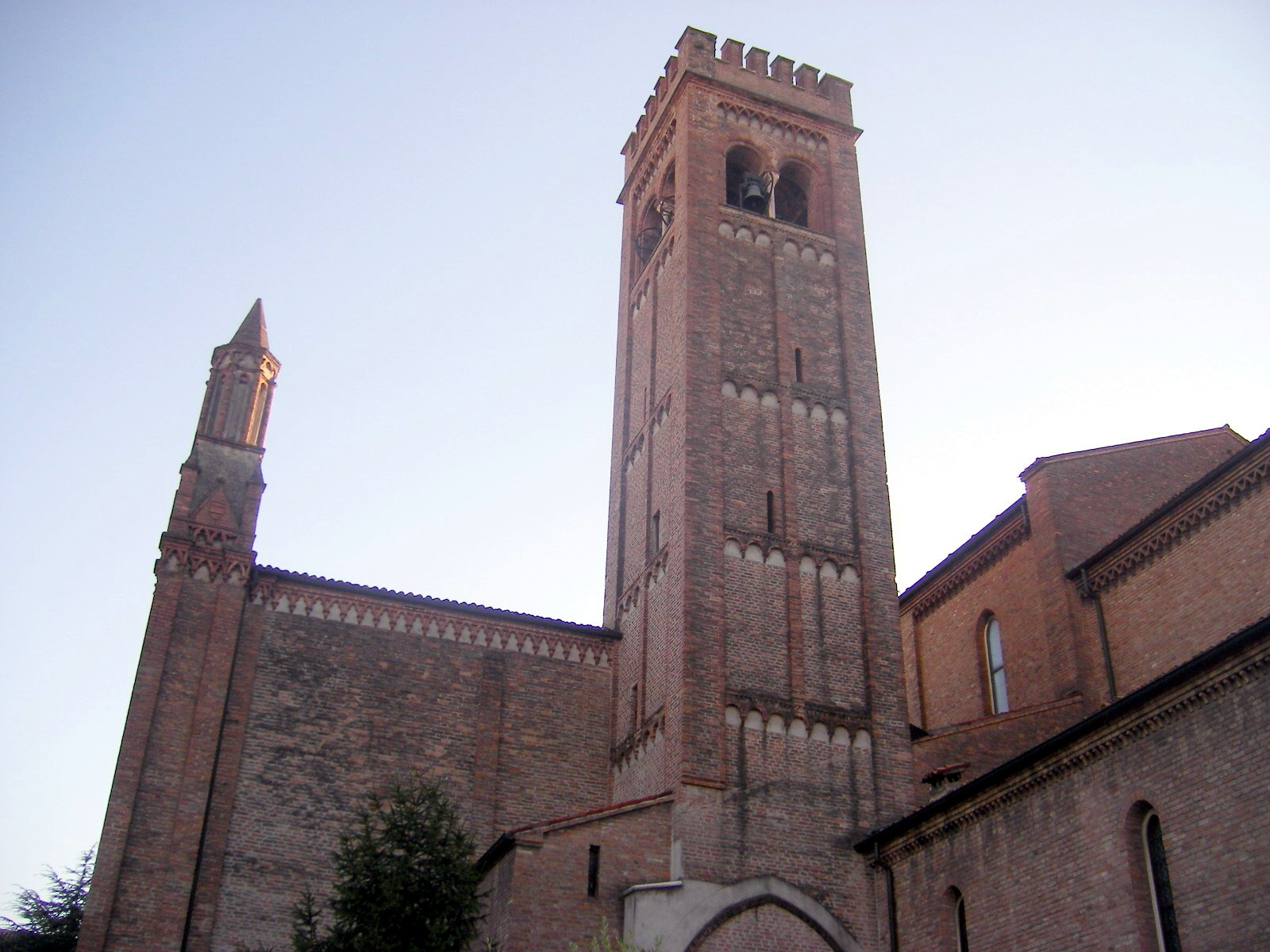 Saint Francis church in Mantua, Italy.